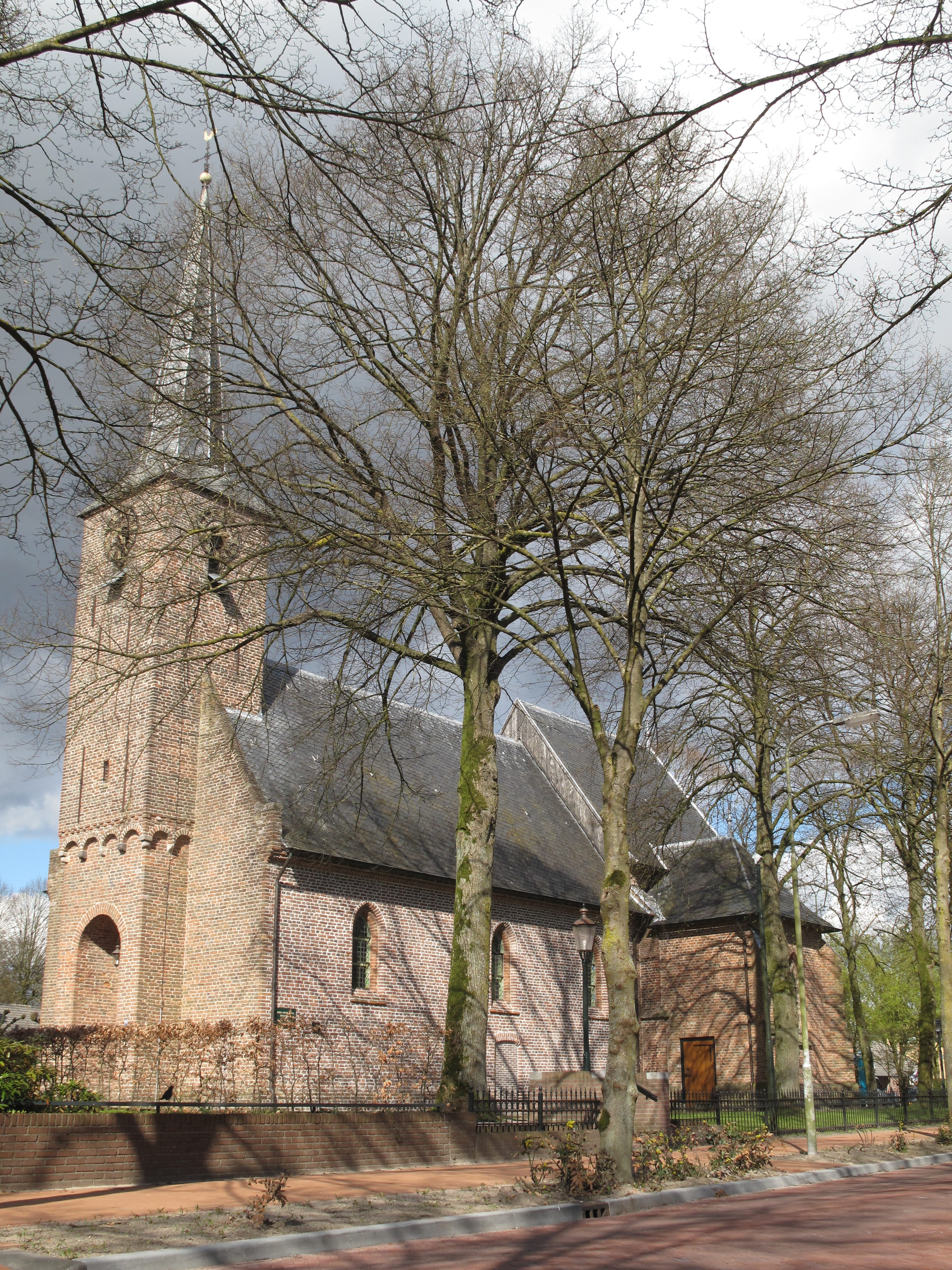 Otterlo, church RM14486